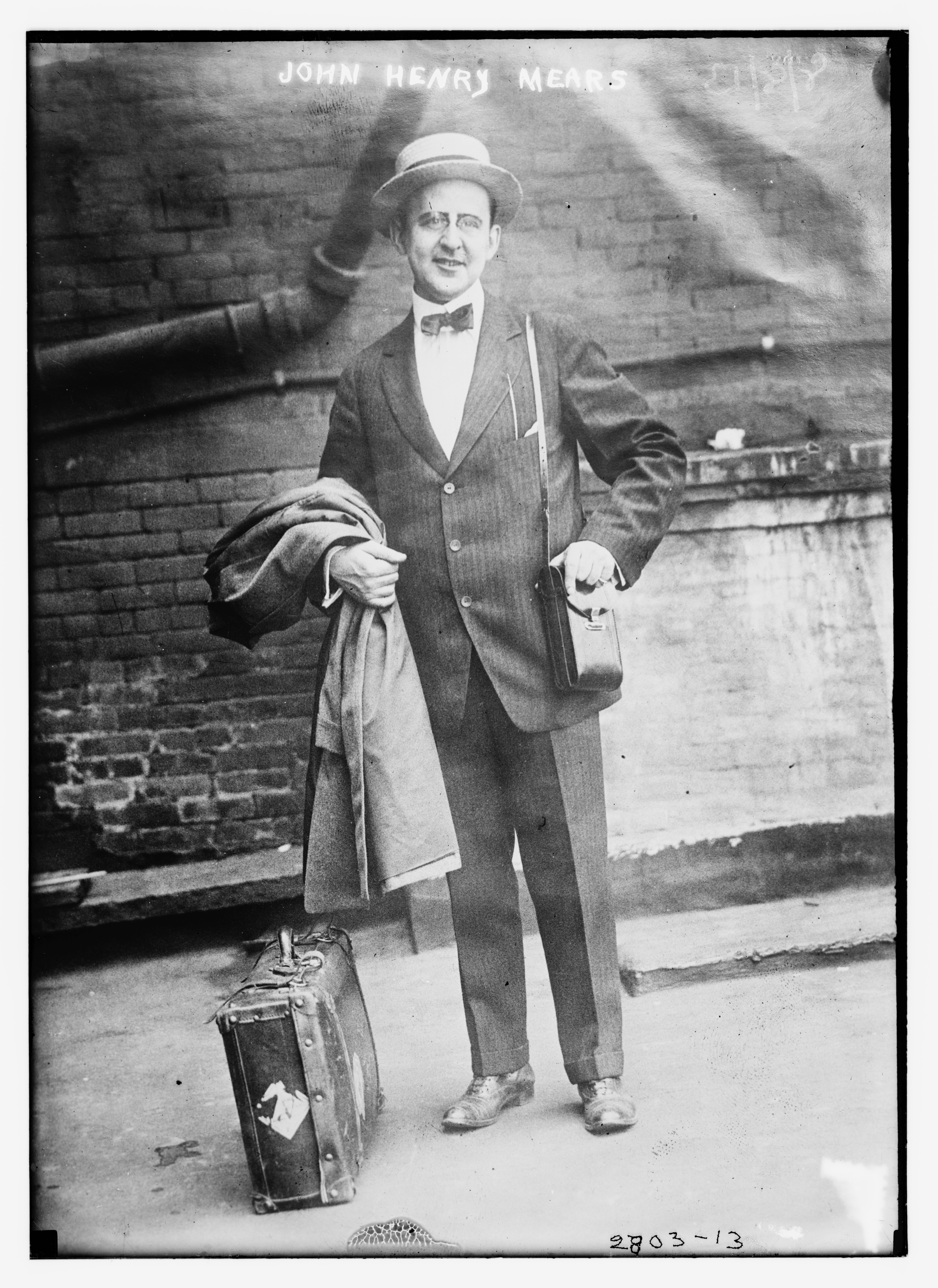 Bain News Service,, publisher. John Henry Mears (May 22, 1878, Massachusetts-July 26, 1956, Los Angeles, CA) [between ca. 1910 and ca. 1915] 1 negative : glass ; 5 x 7 in. or smaller. Notes: Title from unverified data provided by the Bain News Service on the negatives or caption cards. Forms part of: George Grantham Bain Collection (Library of Congress). Format: Glass negatives. Repository: Library of Congress, Prints and Photographs Division, Washington, D.C. 20540 USA, General information about the Bain Collection is available at Persistent URL: Call Number: LC-B2- 2803-13